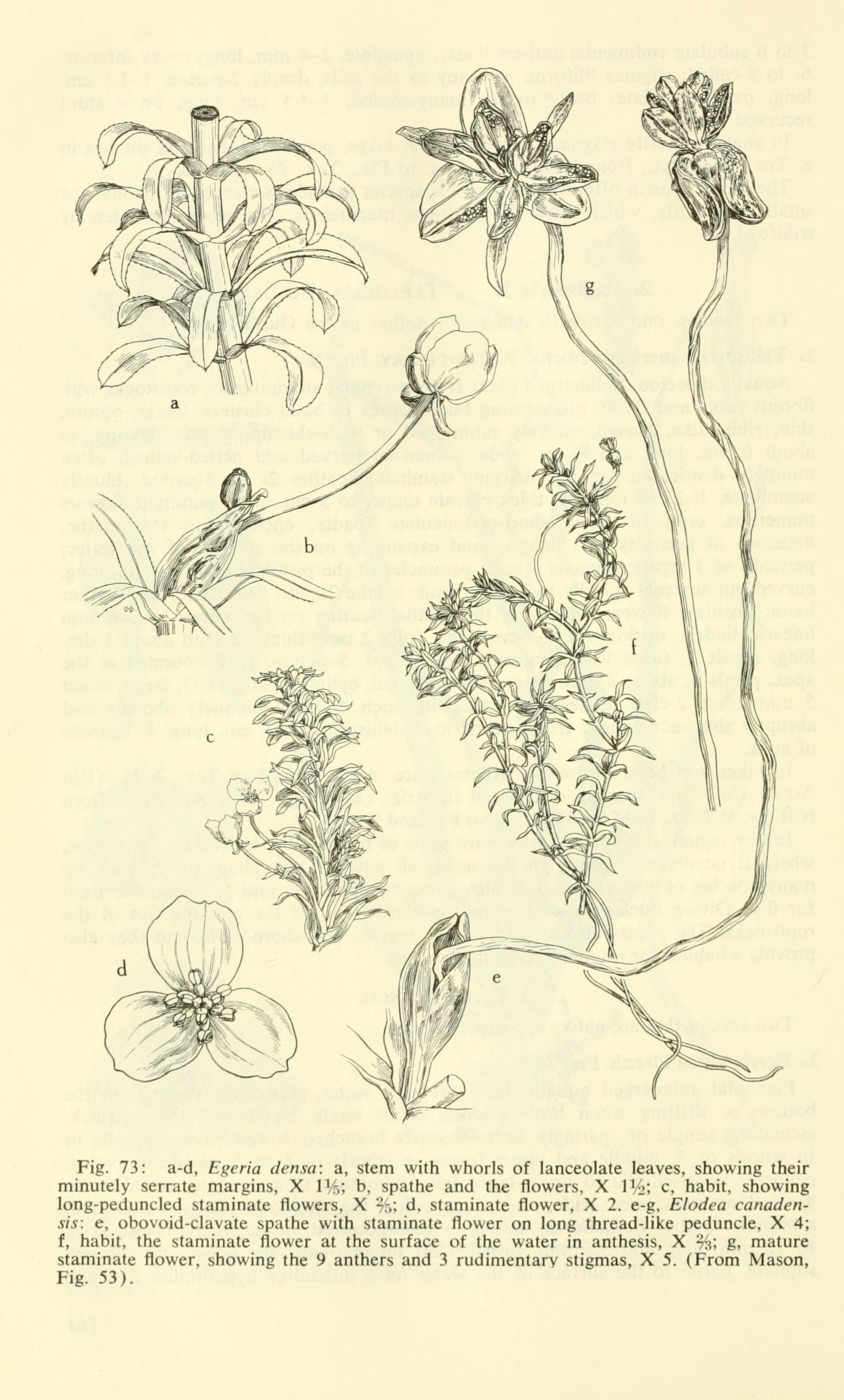 Title: Aquatic and wetland plants of southwestern United States Year: 1972 (1970s) Authors: Correll, Donovan Stewart, 1908-; Correll, Helen B Subjects: Aquatic plants -- Southwestern States; Wetland plants -- Southwestern States Publisher: [Washington Environmental Protection Agency; [For sale by the Supt. of Docs. , U. S. Govt. Print. Off. Text Appearing Before Image: ' Text Appearing After Image: Fig. 73: a-d, Egeria densa: a, stem with whorls of lanceolate leaves, showing their minutely serrate margins, X 1%; b, spathe and the flowers, X P^; c, habit, showing long-peduncled staminate flowers, X %; d, staminate flower, X 2. e-g, Elodea canaden- sis: e, obovoid-clavate spathe with staminate flower on long thread-like peduncle, X 4; f, habit, the staminate flower at the surface of the water in anthesis, X %; g, mature staminate flower, showing the 9 anthers and 3 rudimentary stigmas, X 5. (From Mason, Fig. 53).